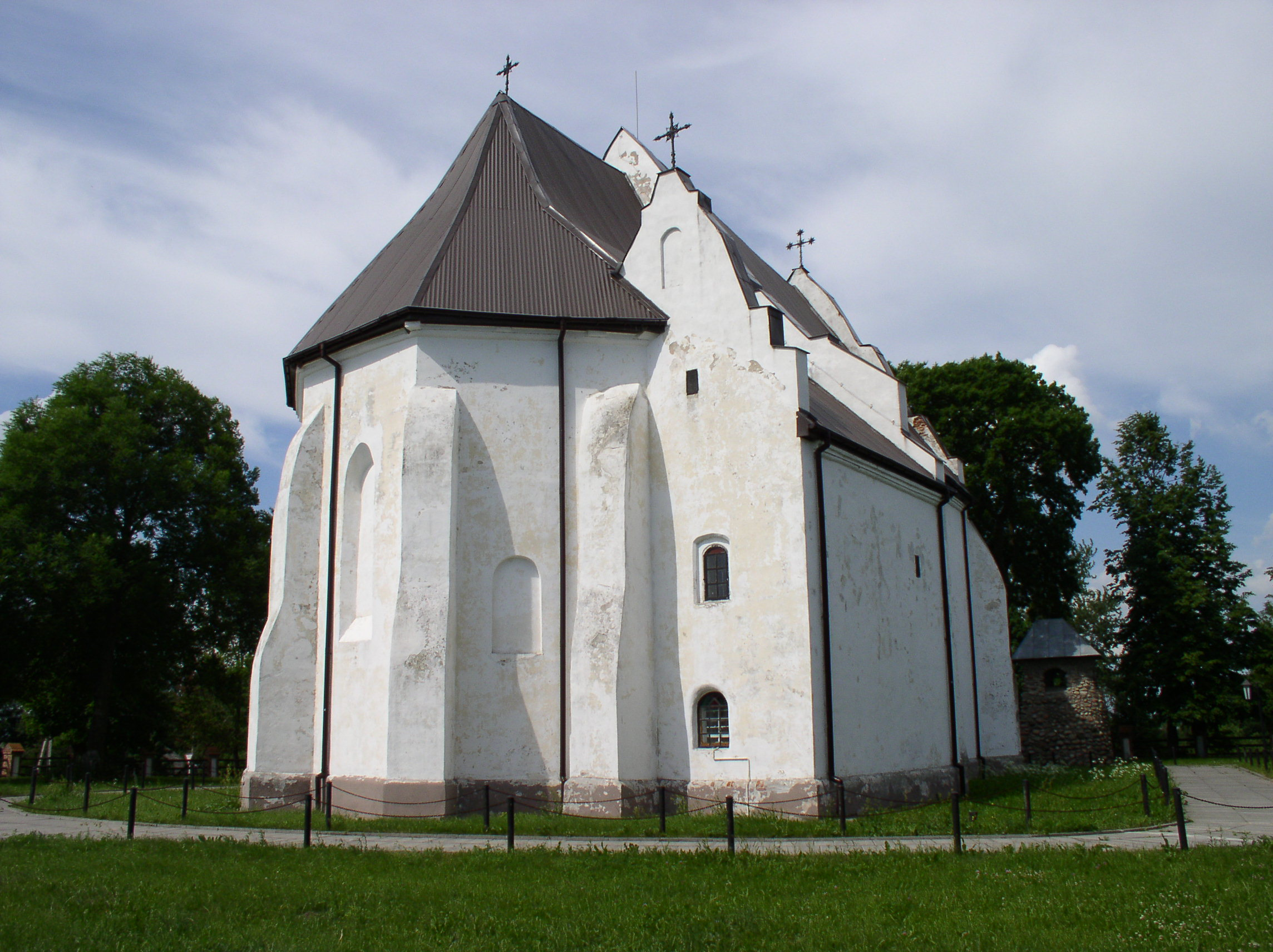 Church of Holy Trinity. Ishkaldz, Belarus.